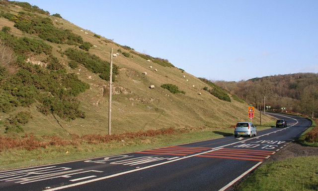 B4265 - Pant St Brides The "back road" to Bridgend is rather twisty - hence the many warnings